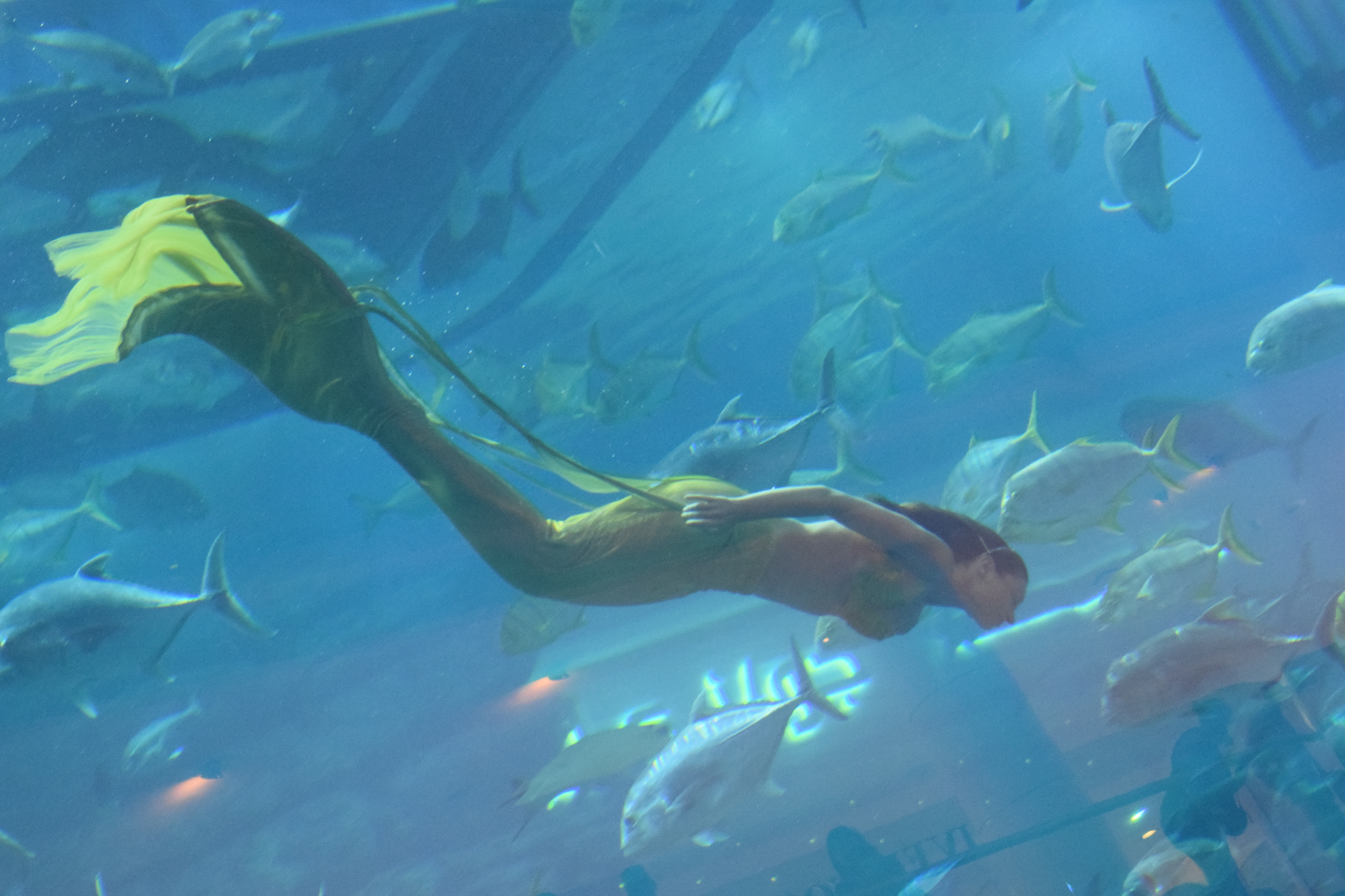 Mermaid show in Dubai Mall aquarium